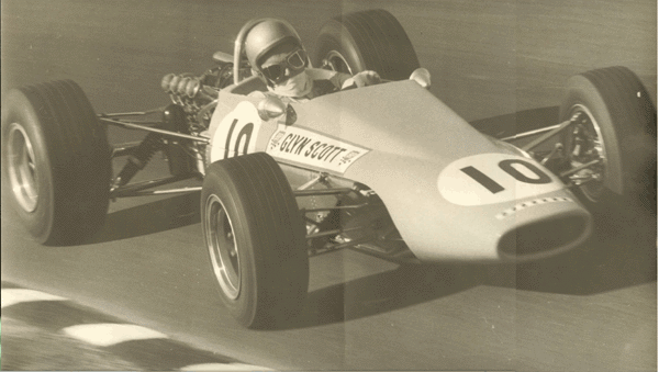 Bowin P3 Formula 2 driven by Glyn Scott